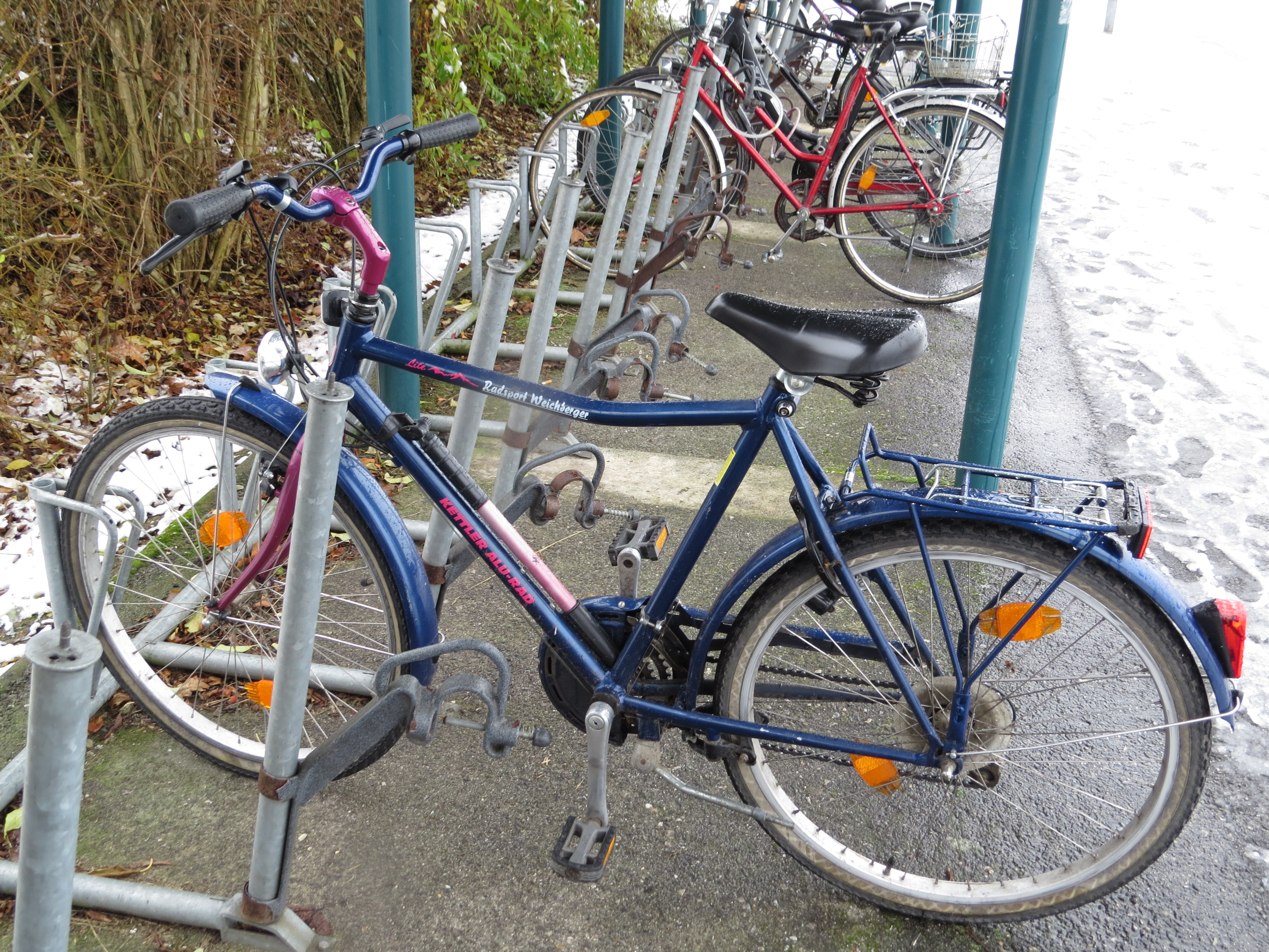 Kettler aluminium bicycle at Bahnhof Ybbs an der Donau